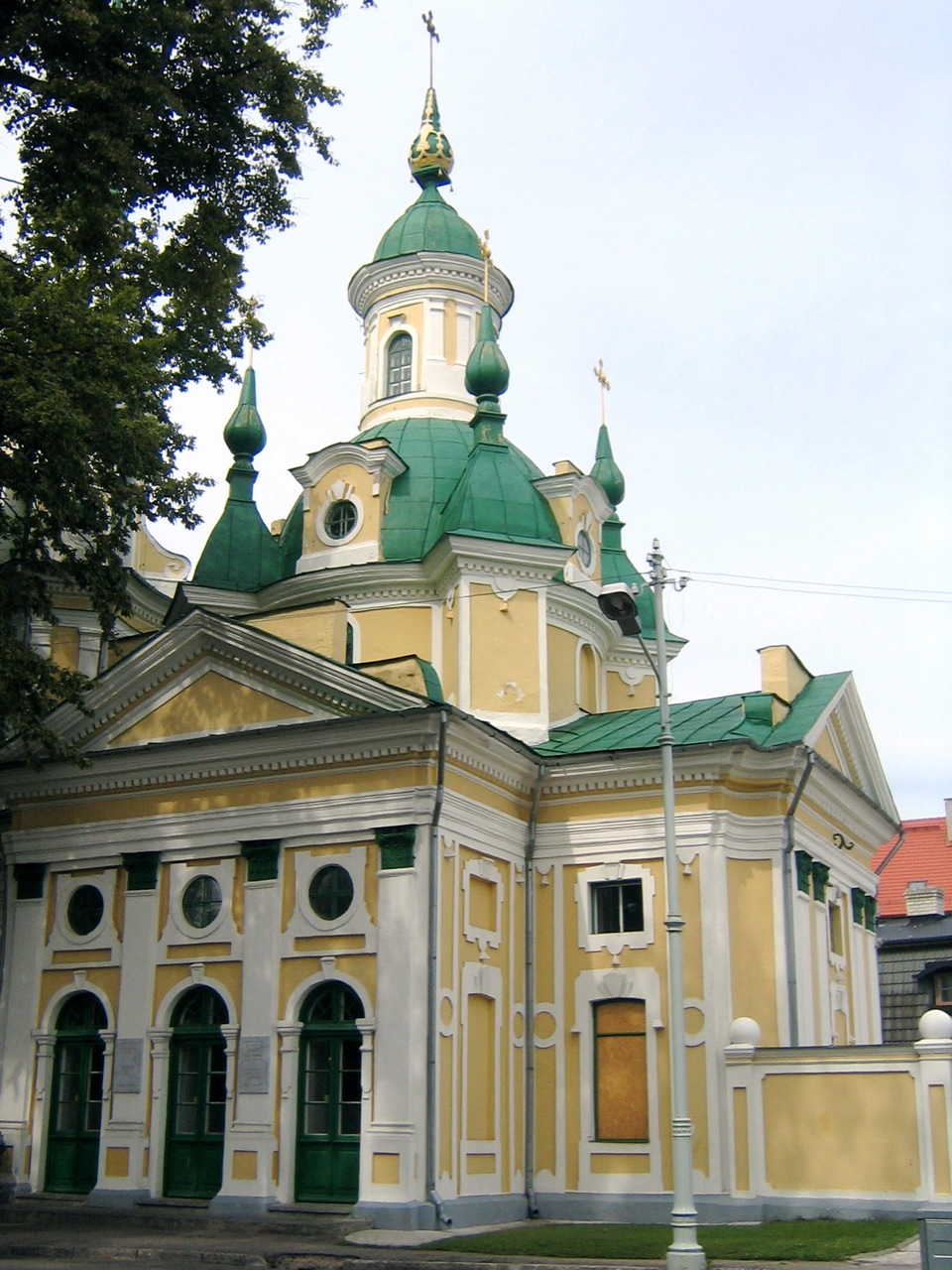 The St. Catherine's russian-orthodox Church in Pärnu. It was built for the Pärnu garrison in 1768 according to the order of Empress Catherine II.